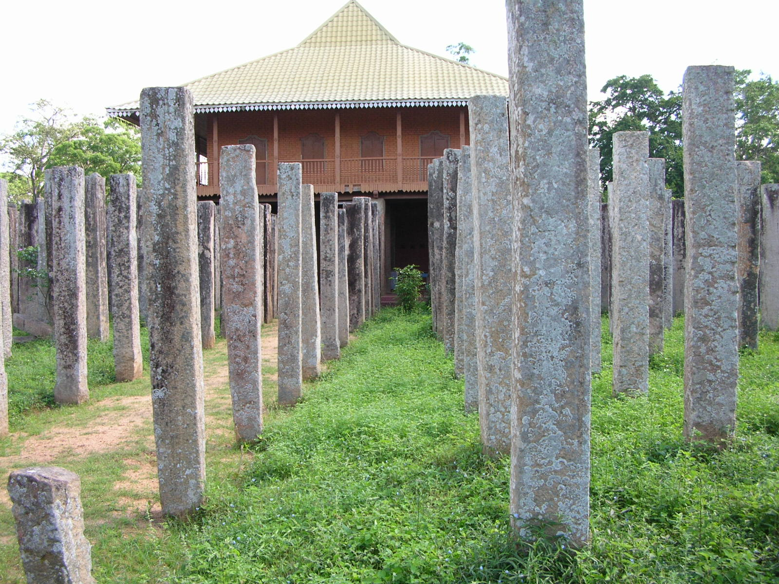 Lovamahapaya Anuradhapura සිංහල: ලෝවාමහාපාය අනුරාධපුර